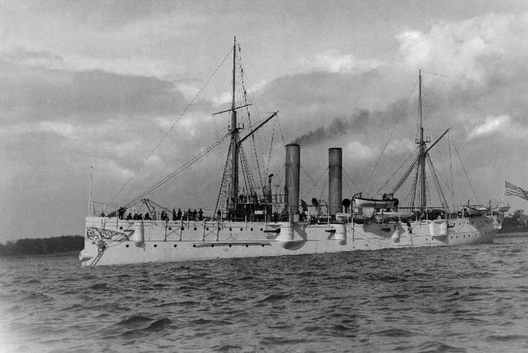 Photo #: NH 54505, USS Detroit (C-10) At anchor, circa 1893-1900. Removed caption read: Photo # NH 54505 USS Detroit at anchor